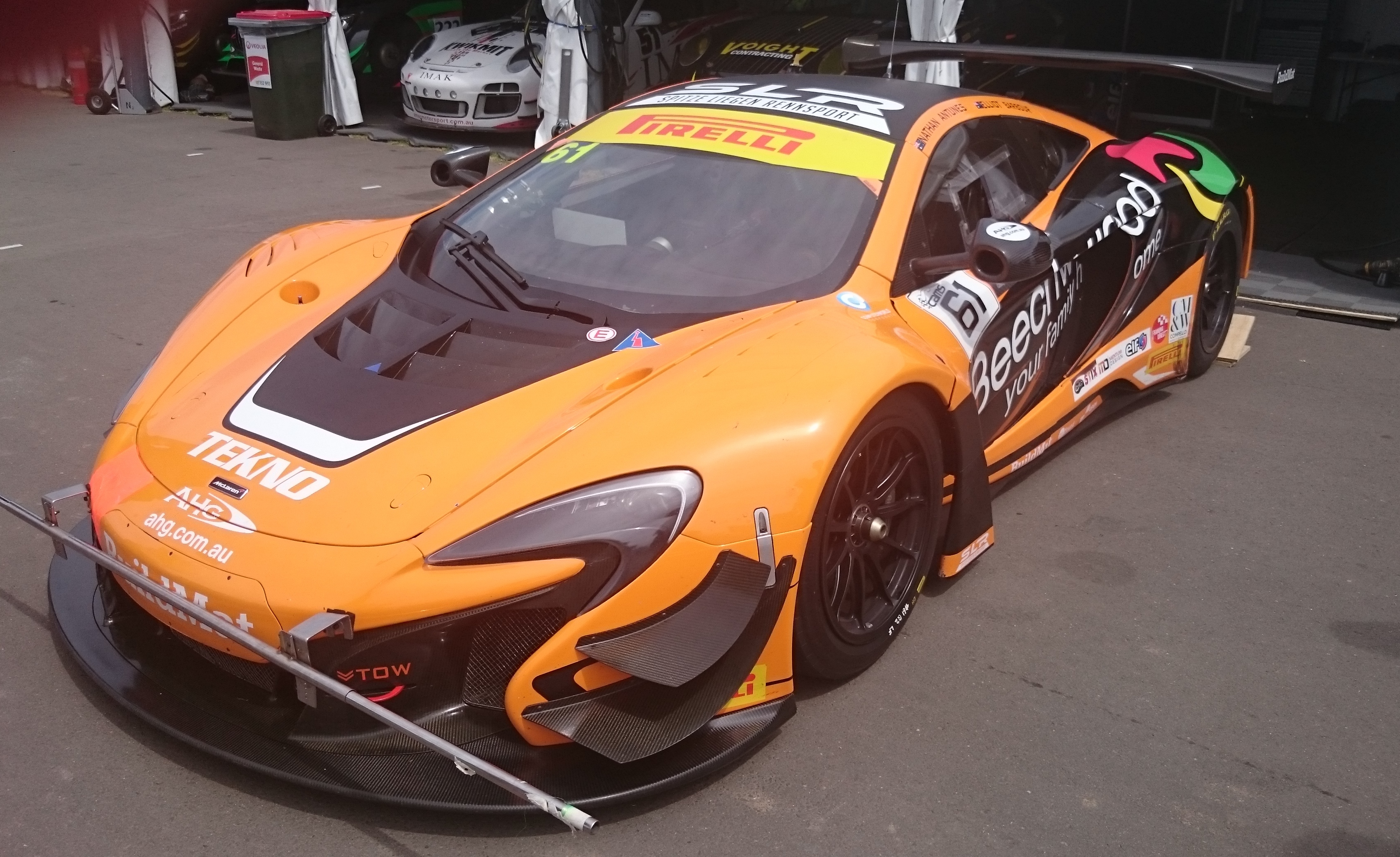 The McLaren 650S GT3 of Nathan Antunes & Elliot Barbour at the Adelaide Parklands Circuit for the opening round of the 2016 Australian GT Championship. The car was entered by Tekno Autosports